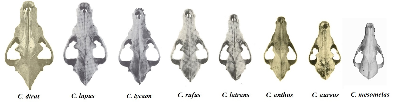 Skulls of dire wolf, grey wolf, eastern wolf, red wolf, prarie wolf, African golden wolf, reed wolf and black-backed jackal.